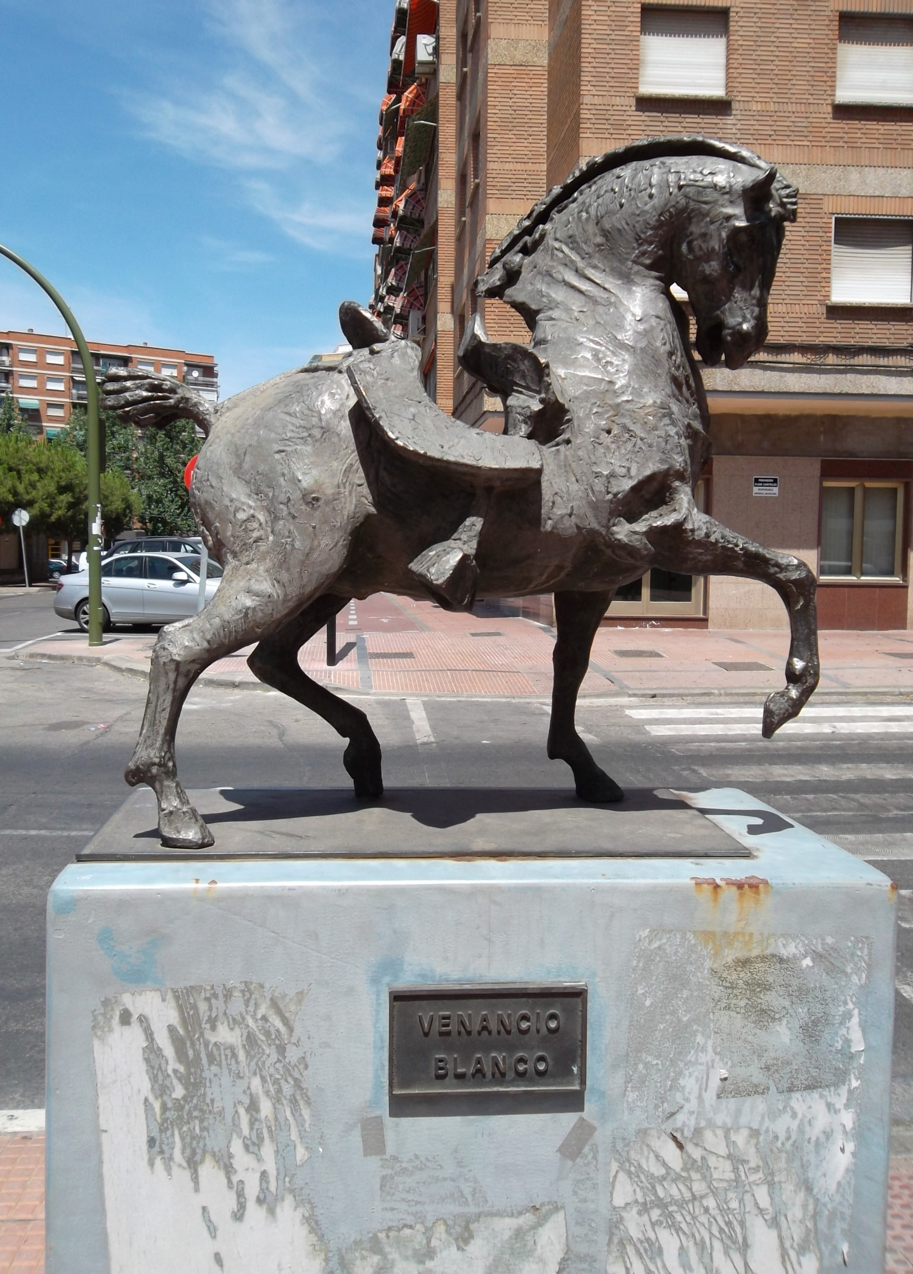 Venancio Blanco sculpture at the Museum of Outdoor Sculpture of Alcala de Henares (Madrid - Spain)